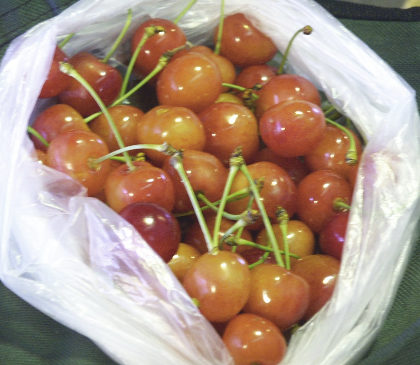 Yamagata cherries, such as these, commonly sell for $30 or more per pound. Photo taken by me in July, 2006.